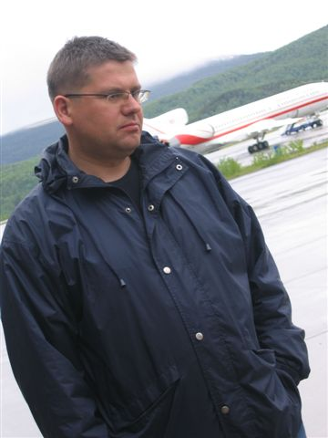 Jacek Kotas (b. 1967), Polish bussinesman and politician